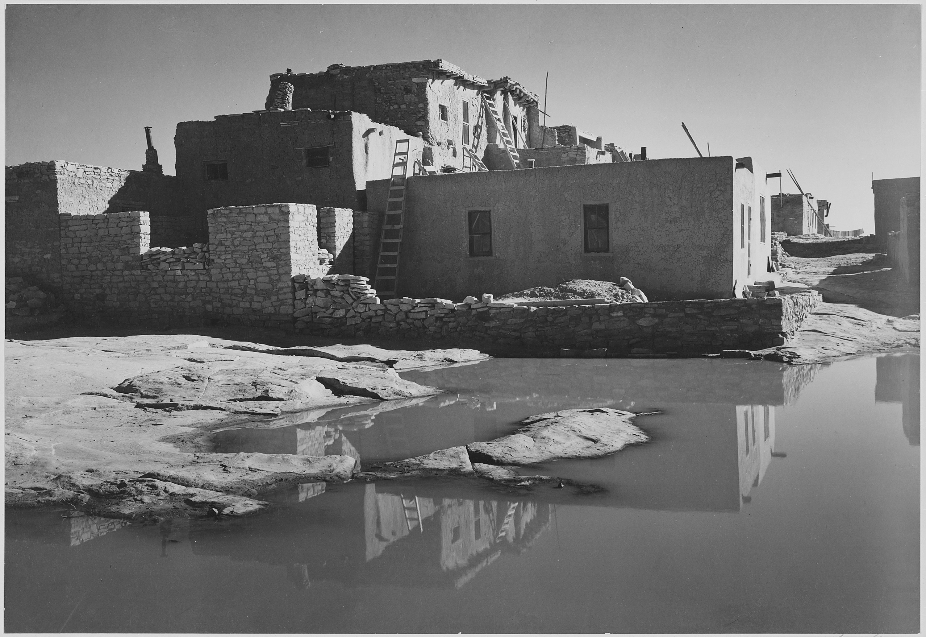 Full side view of adobe house with water in foreground, nearly identical to item NWDNS-79-AA-A01, "Acoma Pueblo [National Historic Landmark, New Mexico]."; From the series Ansel Adams Photographs of National Parks and Monuments, compiled 1941 - 1942, documenting the period ca. 1933 - 1942.